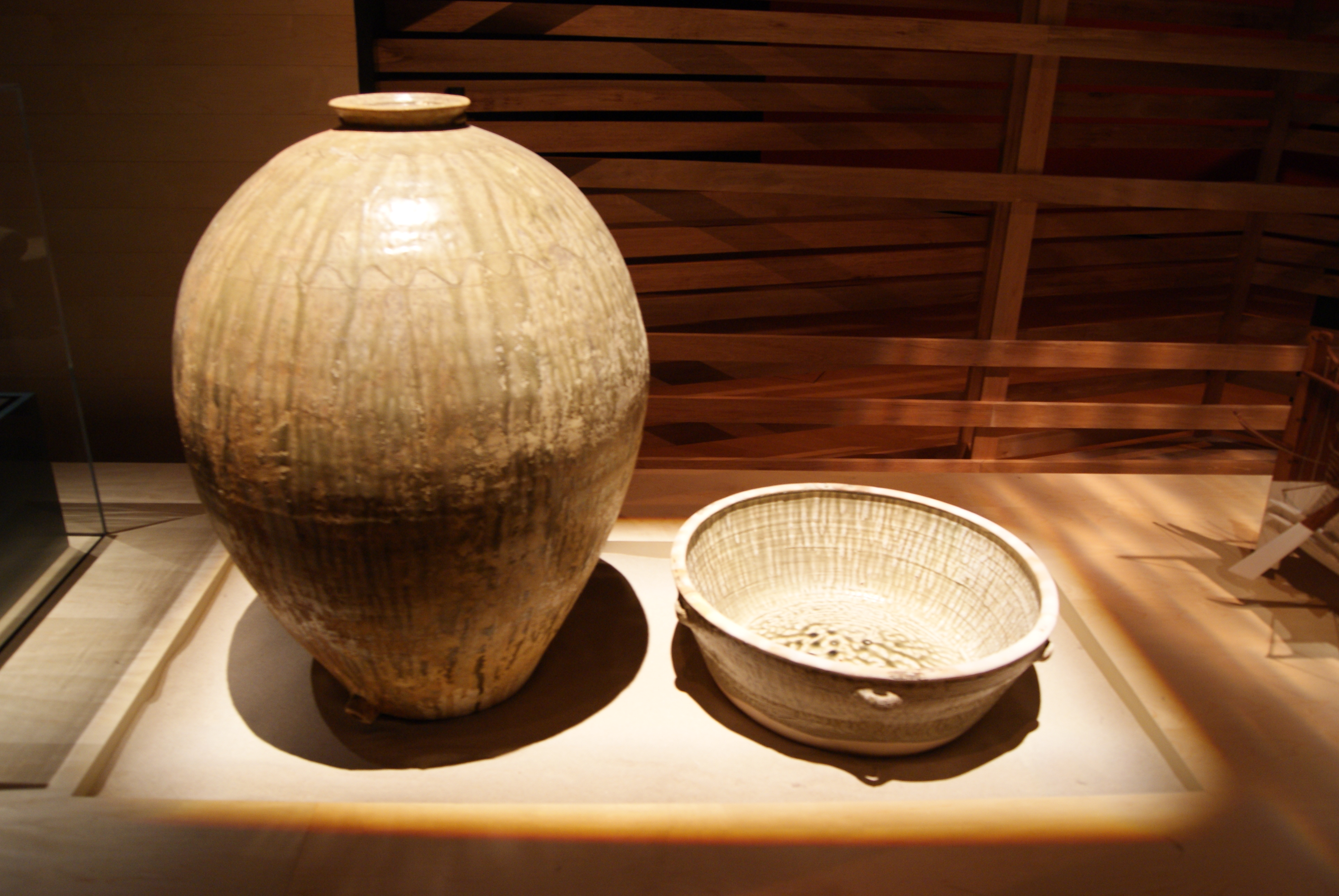 Part of the collection of artifacts from the Belitung shipwreck owned by the Sentosa Leisure Group and the Government of Singapore, photographed while displayed at an exhibition called Shipwrecked: Tang Treasures and Monsoon Winds at the ArtScience Museum, Marina Bay Sands, Singapore, from 19 February 2011 to 31 July 2011.